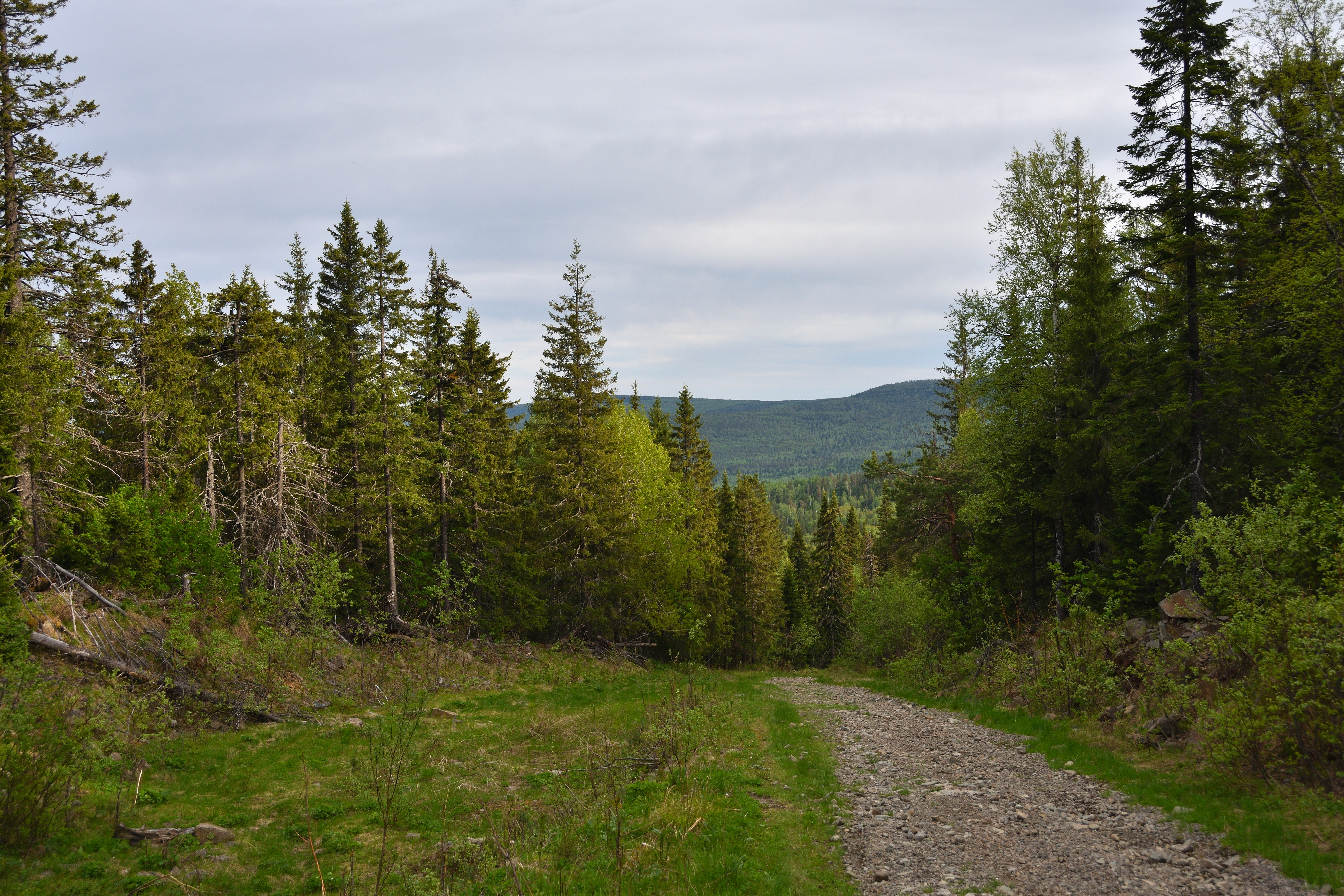 Road to Belaya mountain, Sverdlovsk oblast, Russia This image is related to the protected area of Russia number 6610454